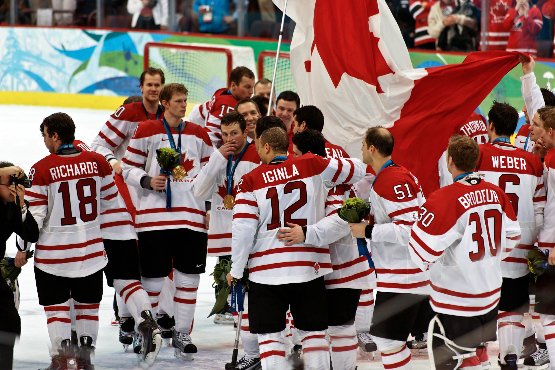 The overtime heroes, Sidney Crosby and Jarome Iginla pose together. Sidney Crosby became a Canadian God after scoring the overtime winning goal, assisted by Jarome Iginla, who made no mistake in passing it to the dynamic superstar.